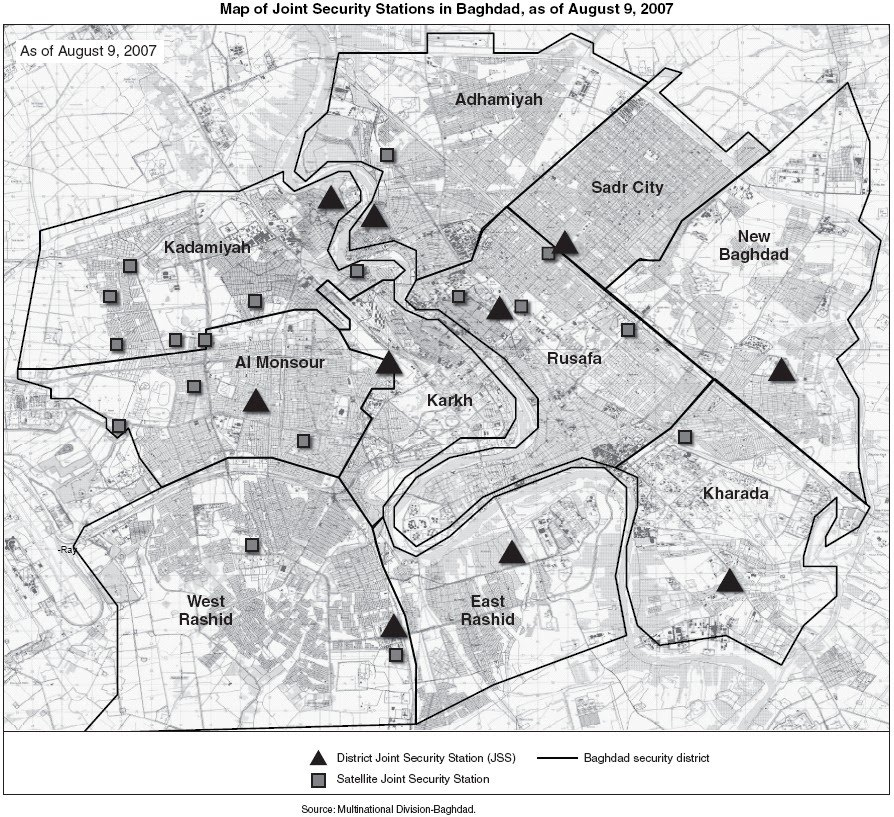 Map of Joint Security Stations in Baghdad, as of August 9, 2007.